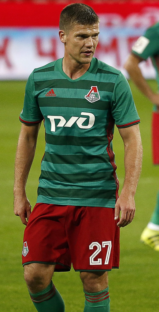 Igor Denisov with FC Lokomotiv Moscow in a game against FC Ufa.